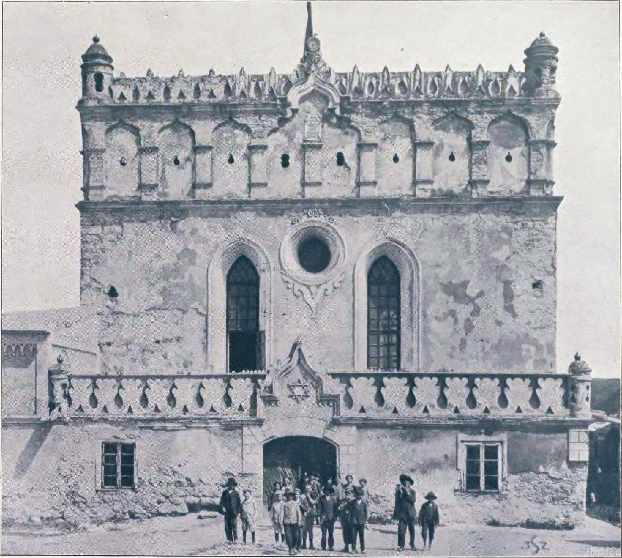 Synagogue of Husyatin at the beginning of the XXth century.